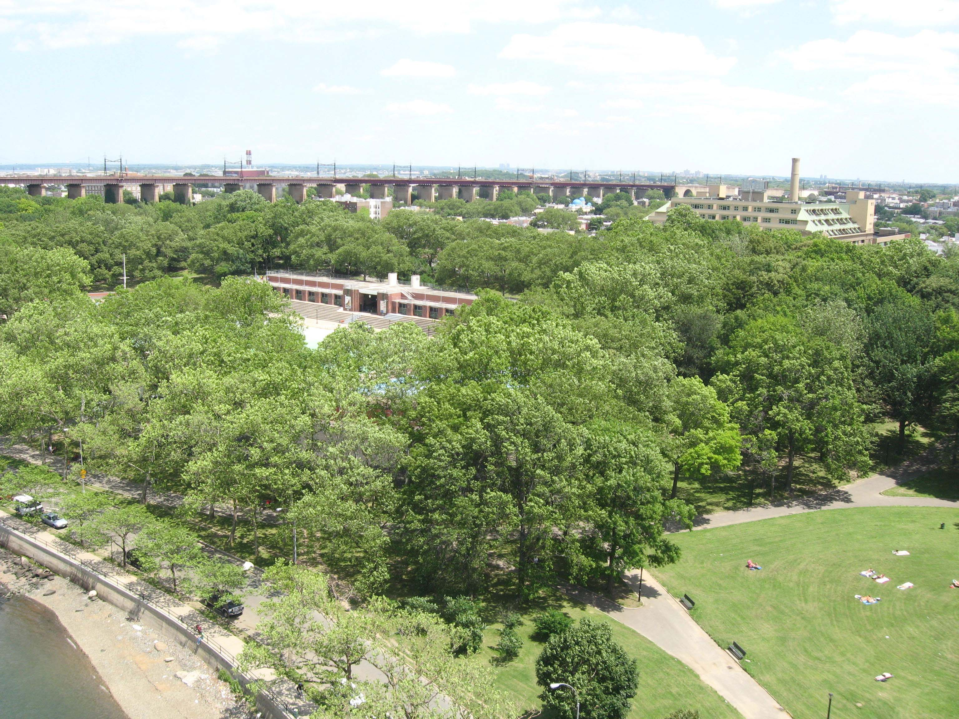 Looking east and down from Triboro Bridge to Astoria Park on a sunny afternoon. New York Connecting Railroad in background.